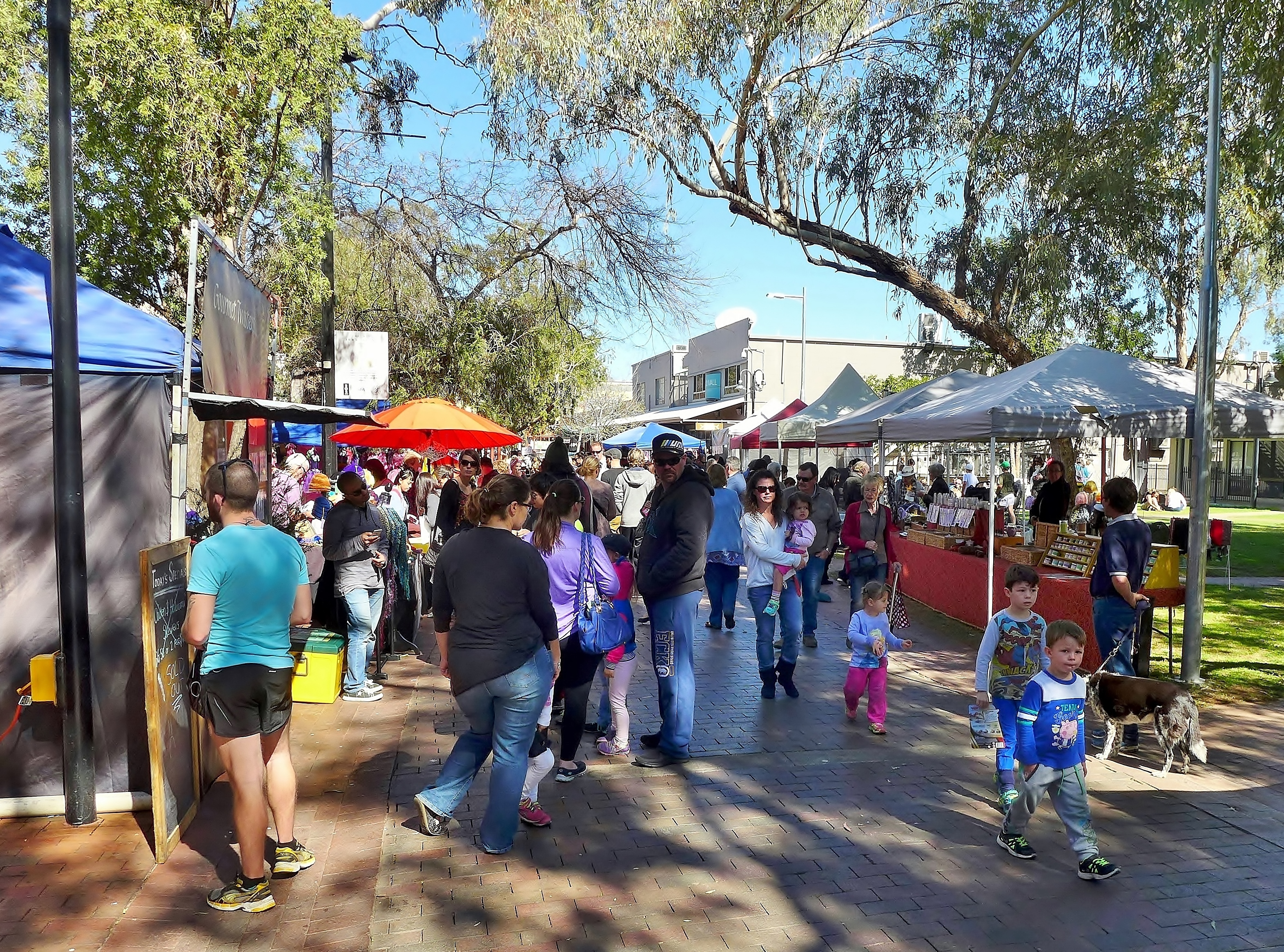 View of the Todd Mall Markets that were held the day after the annual agricultural show in Alice Springs, Australia.